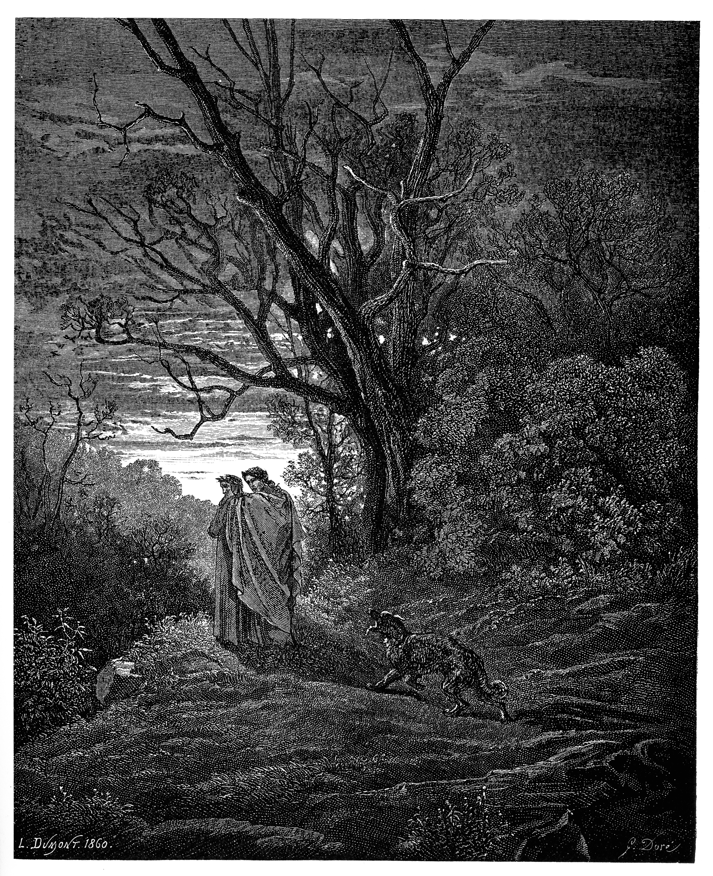 Gustave Doré's illustration to Dante's Inferno. Plate IV: Canto I, "Behold the beast, for which I have turned back; / Do thou protect me from her, famous Sage," (Longfellow's translation)